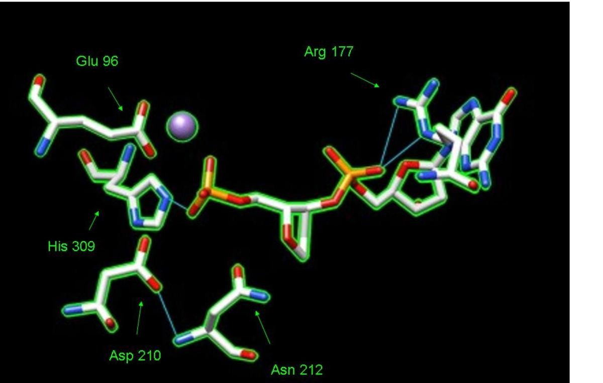 APE1 active site with labeled amino acids. From PDB 1de9.